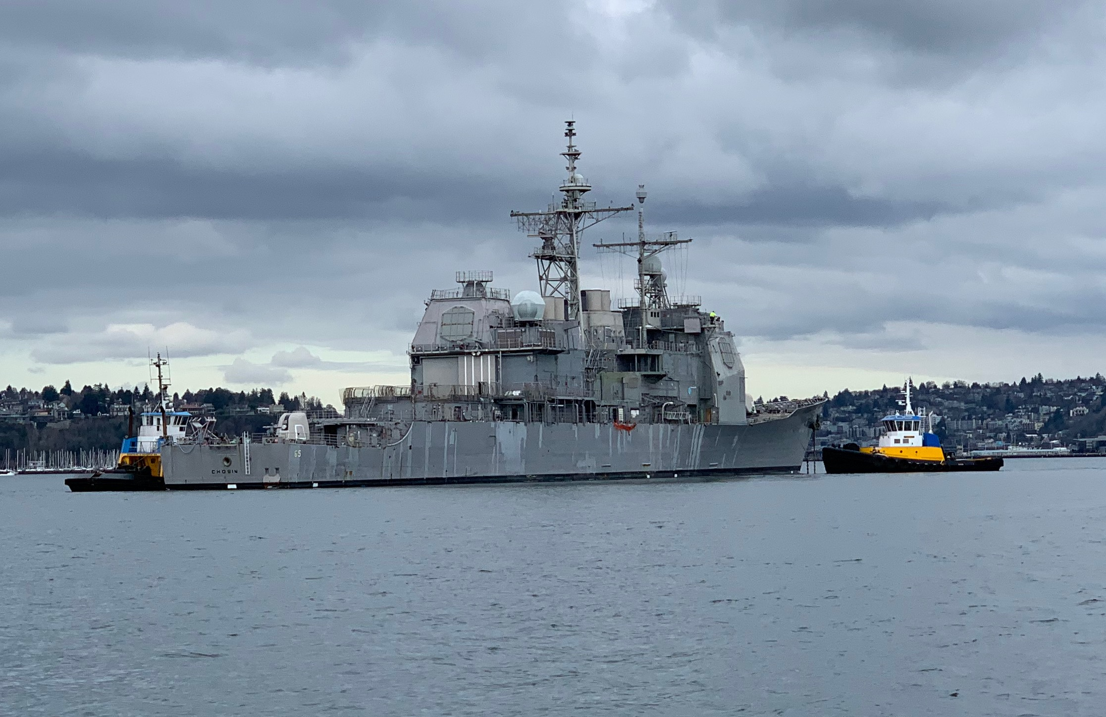 USS Chosin under tow, after arriving in Elliott Bay, Seattle, Feb 2020, preparing to enter Vigor Shipyard.